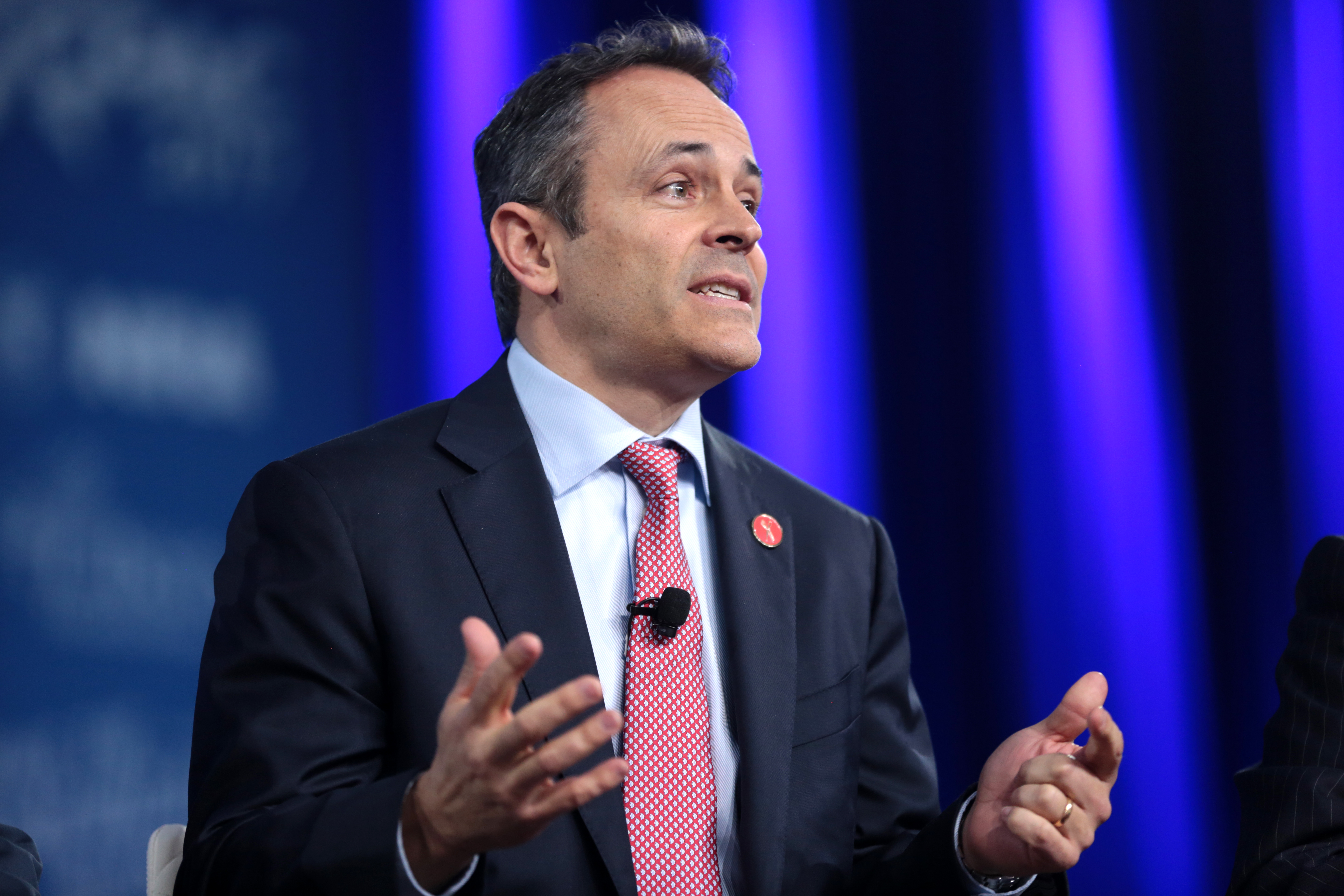 Governor Matt Bevin of Kentucky speaking at the 2017 Conservative Political Action Conference (CPAC) in National Harbor, Maryland.